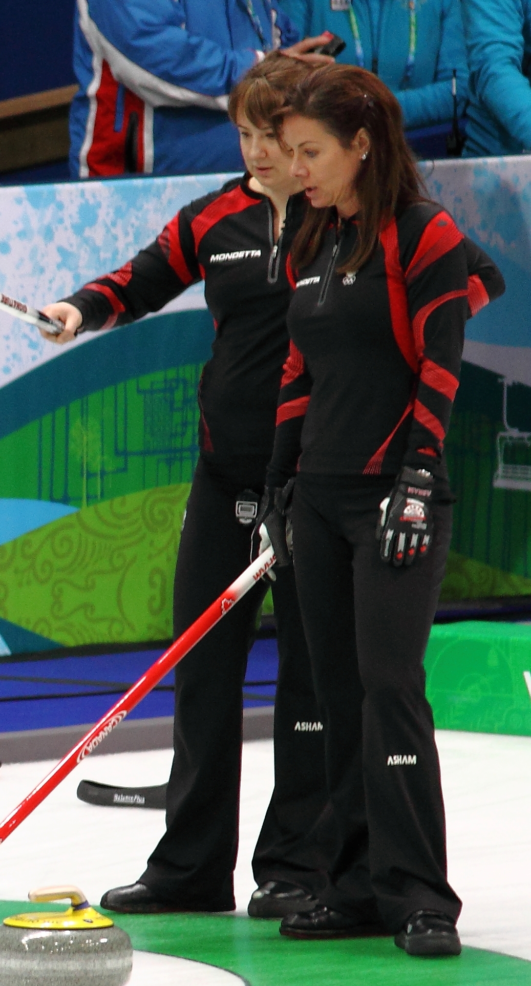 Canadian curlers Susan O'Connor and Cheryl Bernard at Olympics 2010